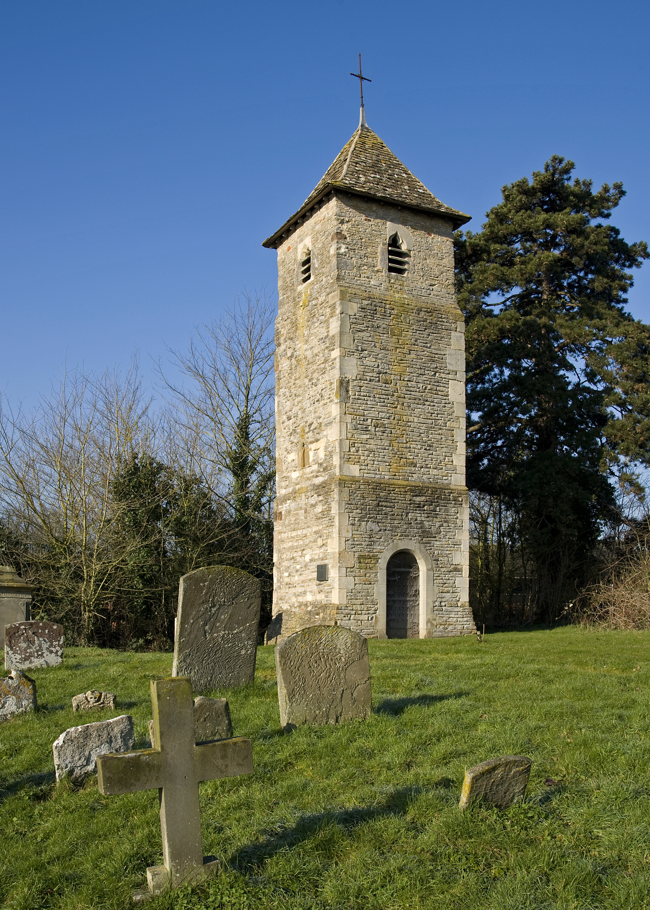 St Oswald's Church, Lassington, is a redundant Anglican church in the village of Lassington and the civil parish of Highnam, Gloucestershire, England. Only its tower now survives. The tower has been designated by English Heritage as a Grade II* listed building, and is under the care of the Churches Conservation Trust.